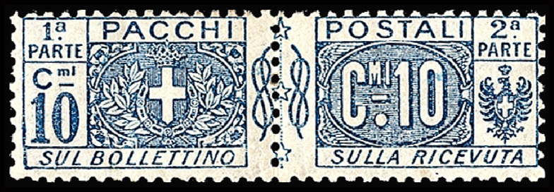 Parcel post stamp of Italy, 10 centesimi, 1914, scott#Q8